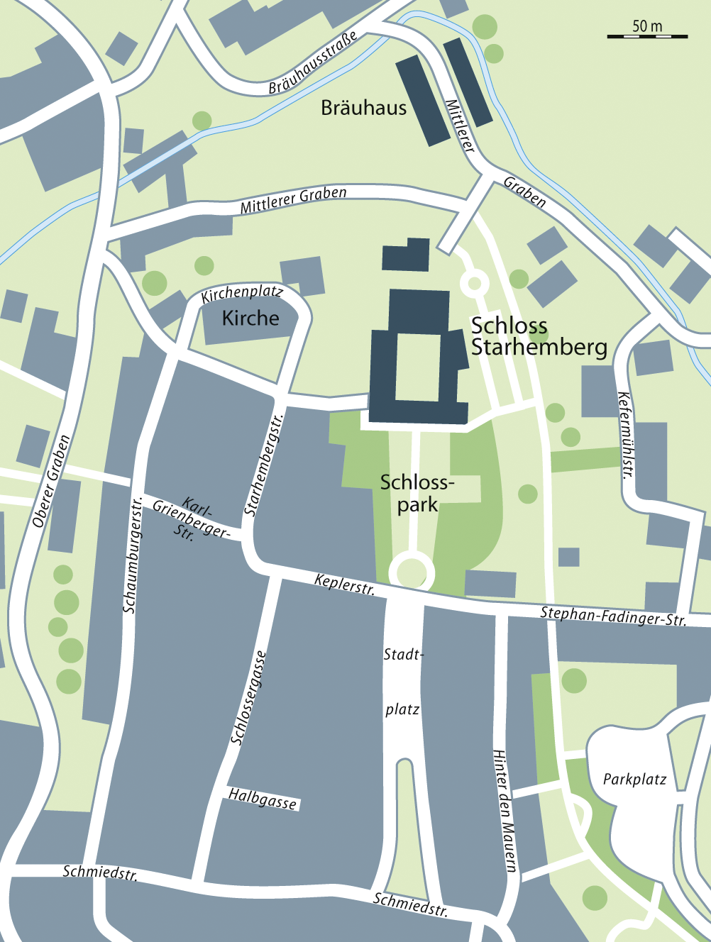 Map of Castle Starhemberg, Eferding, Austria